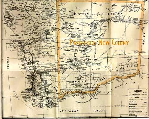 Digital photo of a map of the proposed new colony of Auralia in the Goldfields region of Western Australia